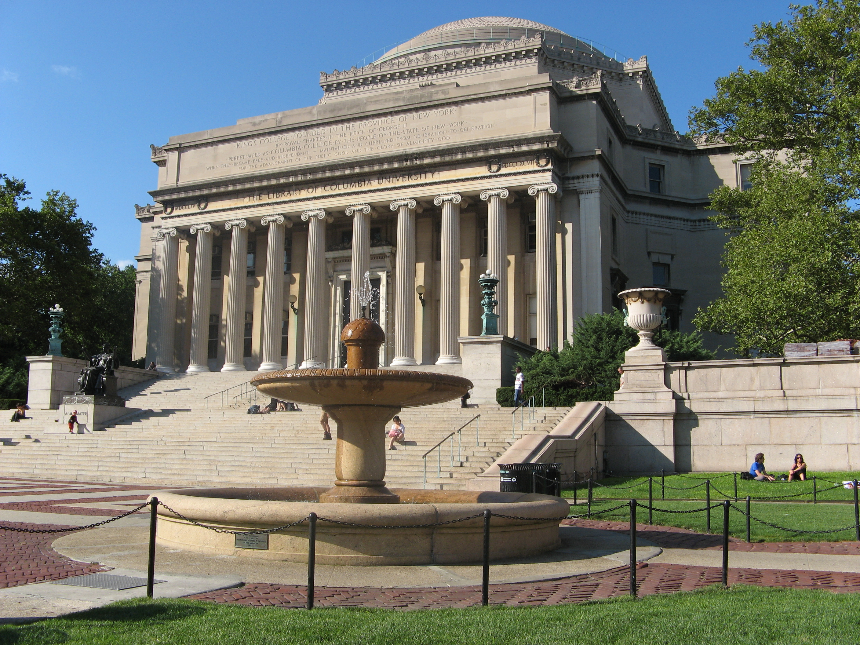 I took this picture on August 11, 2006, with my Canon PowerShot A700 digital camera.